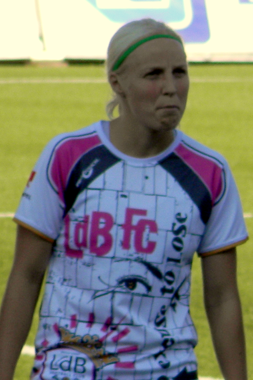 Christina Ørntoft, a dannish player from LdB FC Malmö